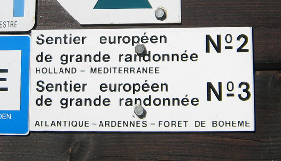 Footpath signs for the European long-distance paths 2 and 3 in Luxembourg. On the side of a hut at approximately 49° 56' 39.2778", 6° 11' 49.4406".